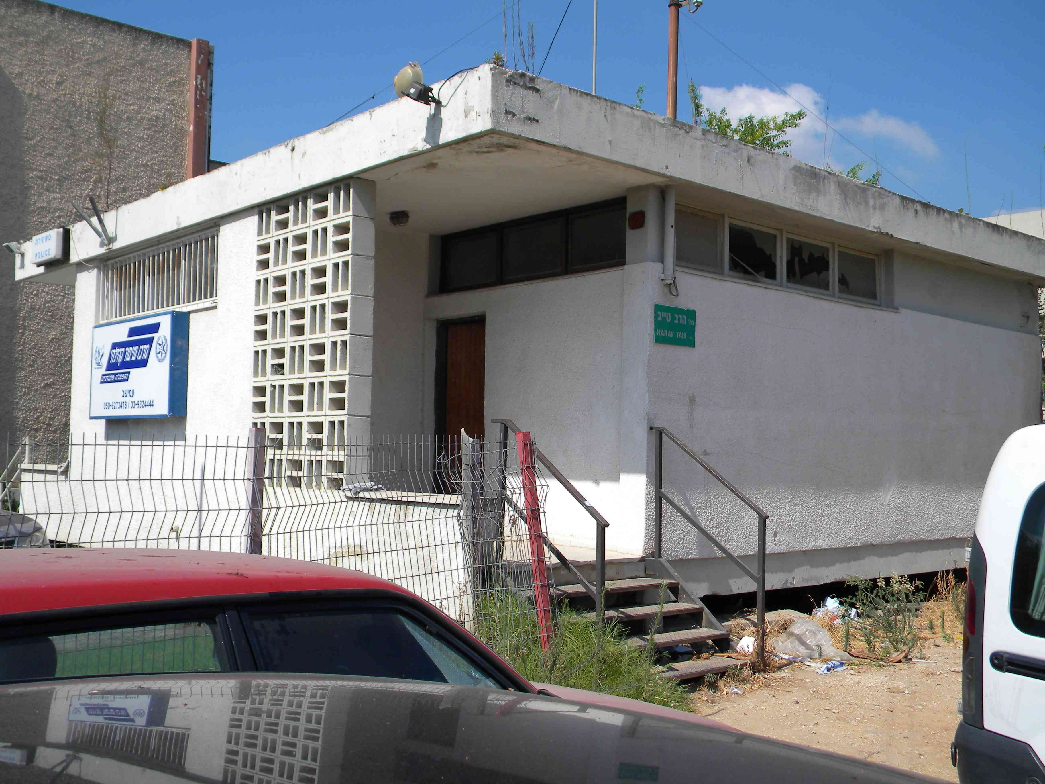 Broken windows in a police station, Petah Tikva, Israel